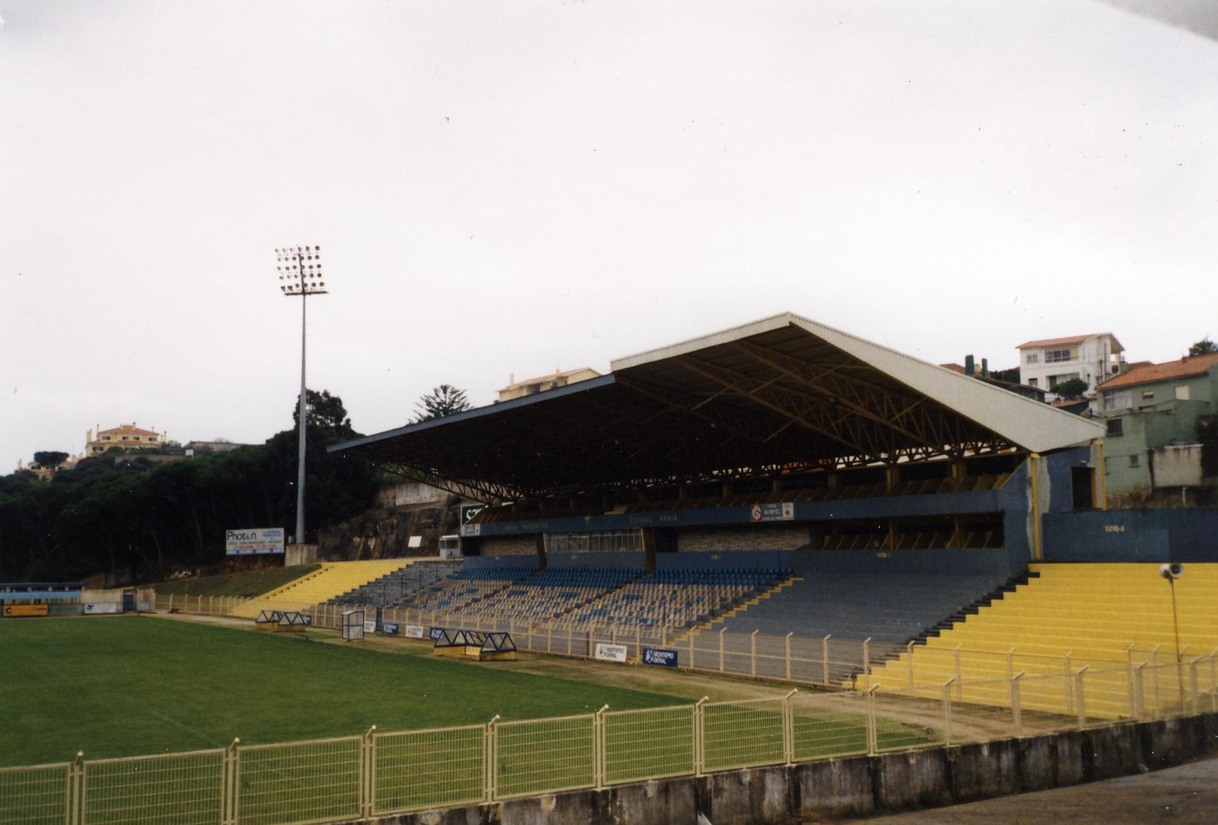 The Stadium Estádio António Coimbra da Mota of GD Estoril Praia 2001